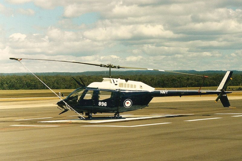 A CAC-assembled Bell 206 Kiowa, used by 723 Squadron of the Royal Australian Navy. Image scanned from a 6"x4" photograph of N17-006 taken by YSSYguy at HMAS Albatross, Nowra, New South Wales on 1 November 1998.